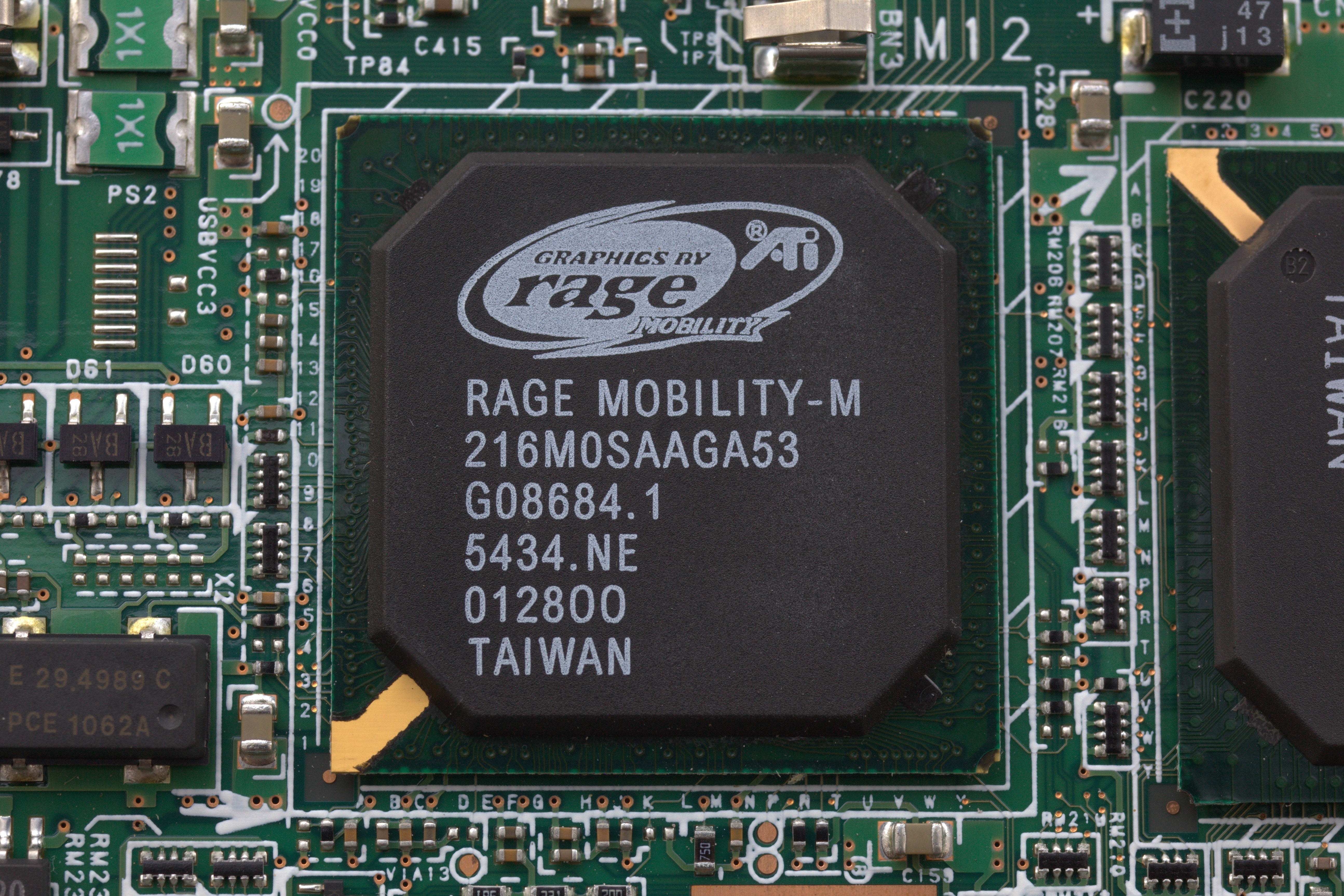 An ATi graphics chip from a Fujitsu Lifebook P series laptop